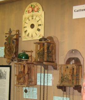 An image of the display on the history of the lack forest clock movement at the Uhrenmuseum Guethenach in Germany